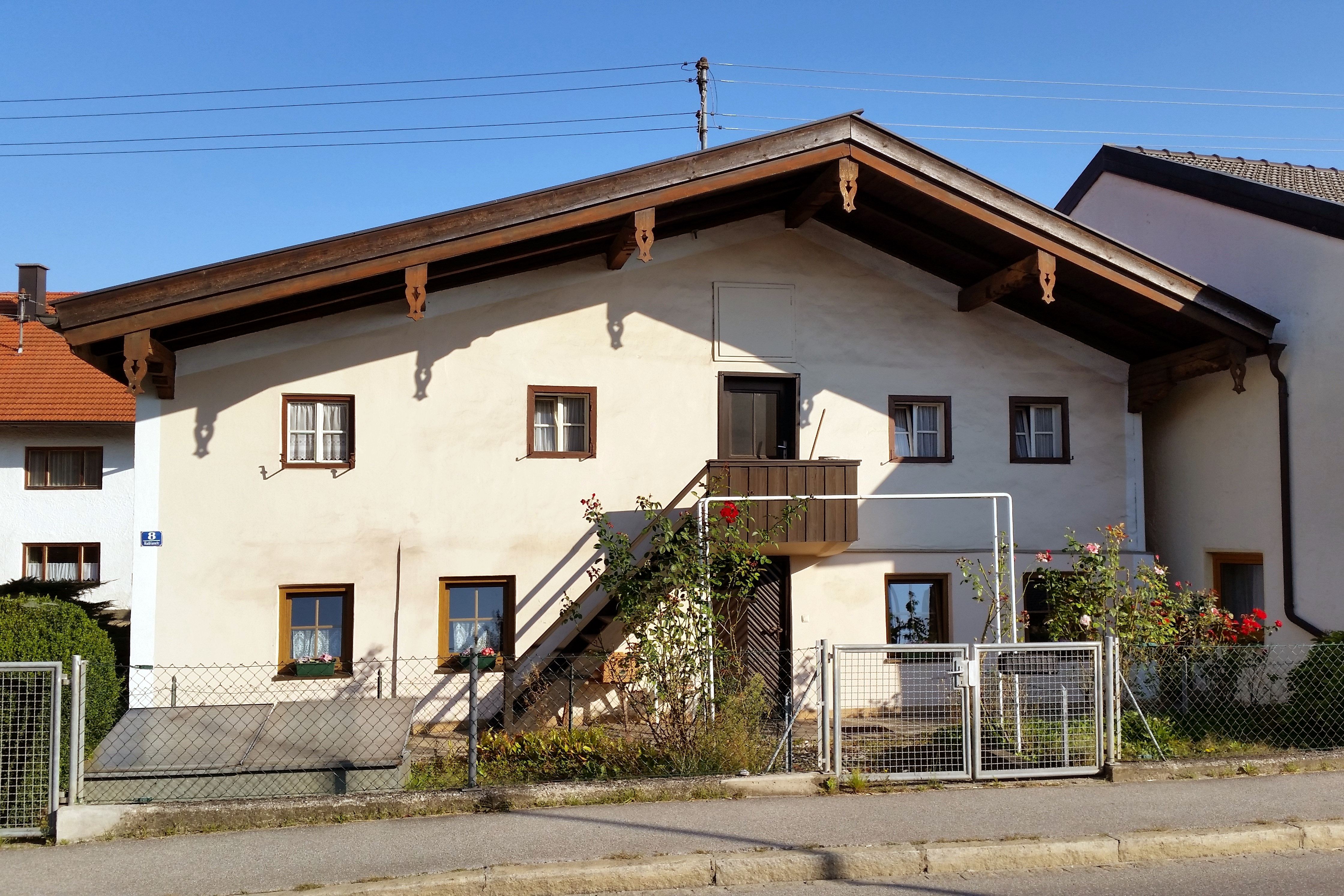 This is a photograph of an architectural monument.